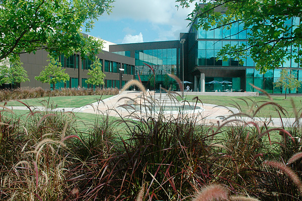 The University of Houston - Clear Lake Student Services building.